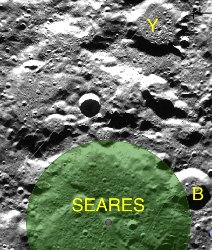 Image form IAU site used for the presentation.